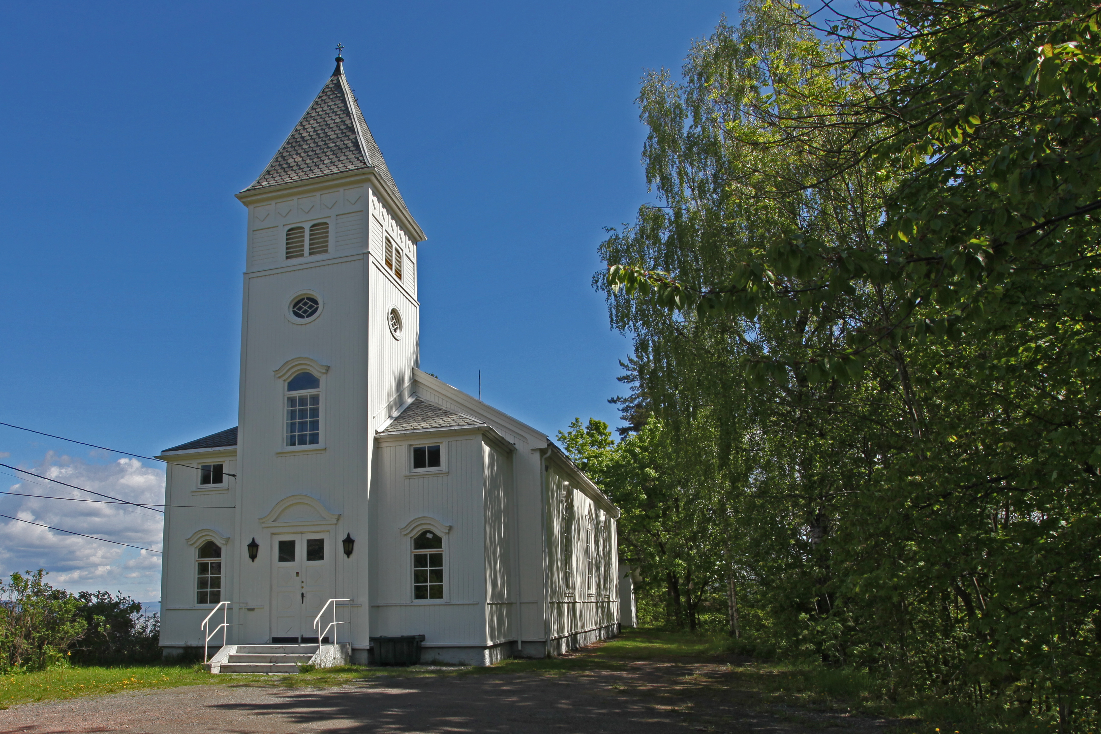 Picture of Nærsnes church (Buskerud - Norway)